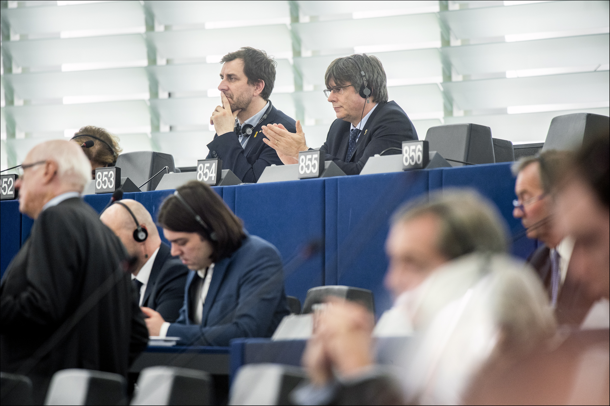 President Sassoli led a minute of silence to remember the victims of the Ukrainian passenger jet crash, at the opening of the session in Strasbourg. On behalf of the European Parliament, President Sassoli expressed his condolences to friends and families of the victims that died in the Ukrainian passenger jet crash in Tehran on Wednesday. He added that he was confident that a transparent inquiry will provide justice for the victims. Changes to the agenda Thursday The title of the debate on “Burundi, notably the case of imprisoned journalists” is changed into “Burundi, notably the freedom of expression”. Incoming Members Oriol JUNQUERAS I VIES (Greens/EFA, ES) as of 2 July 2019 Carles PUIGDEMONT I CASAMAJÓ (Non-Attached, ES) as of 2 July 2019 Antoni COMÍN I OLIVERES (Non-Attached, ES) as of 2 July 2019 Outgoing Members Karoline EDTSTADLER (EPP, AT) as of 6 January 2020 Oriol JUNQUERAS I VIES (Greens/EFA, ES) as of 3 January 2020 Read more: This photo is free to use under Creative Commons license CC-BY-4.0 and must be credited: "CC-BY-4.0: © European Union 2020– Source: EP". No model release form if applicable. For bigger HR files please contact: webcom-flickr(AT)